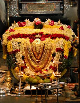 Inside part of the temple